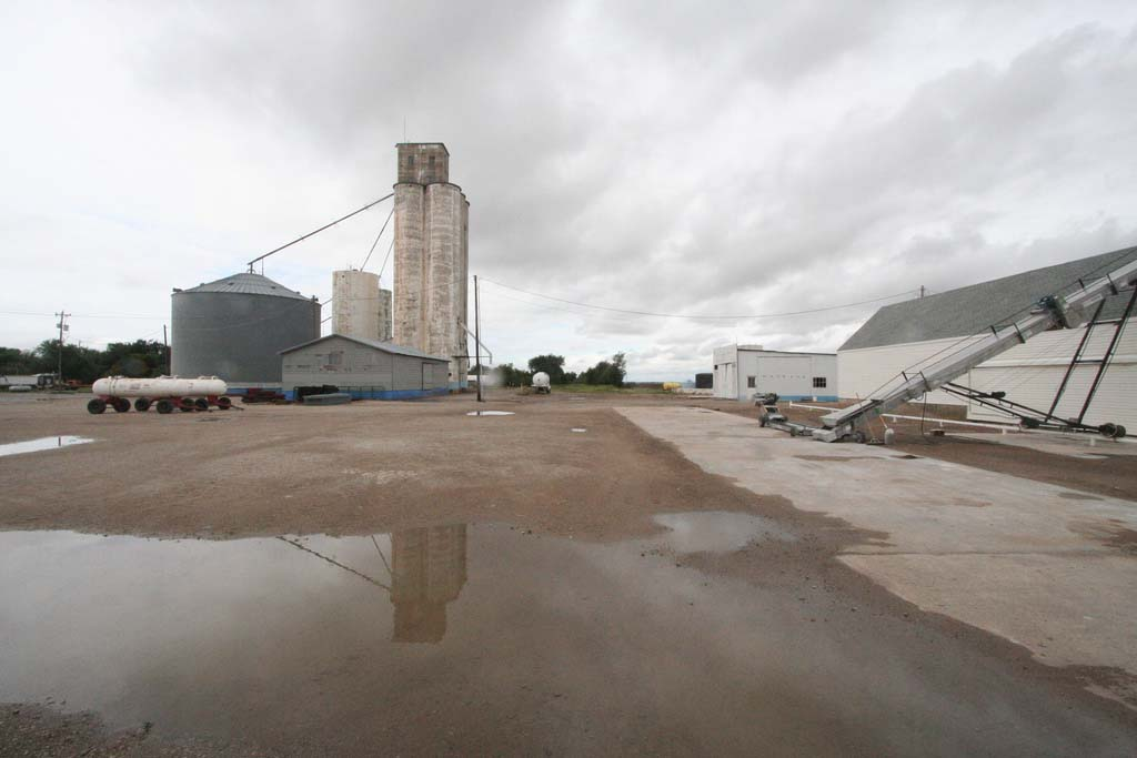 A grain elevator in Garber, Oklahoma that I took myself and am putting into public domain.